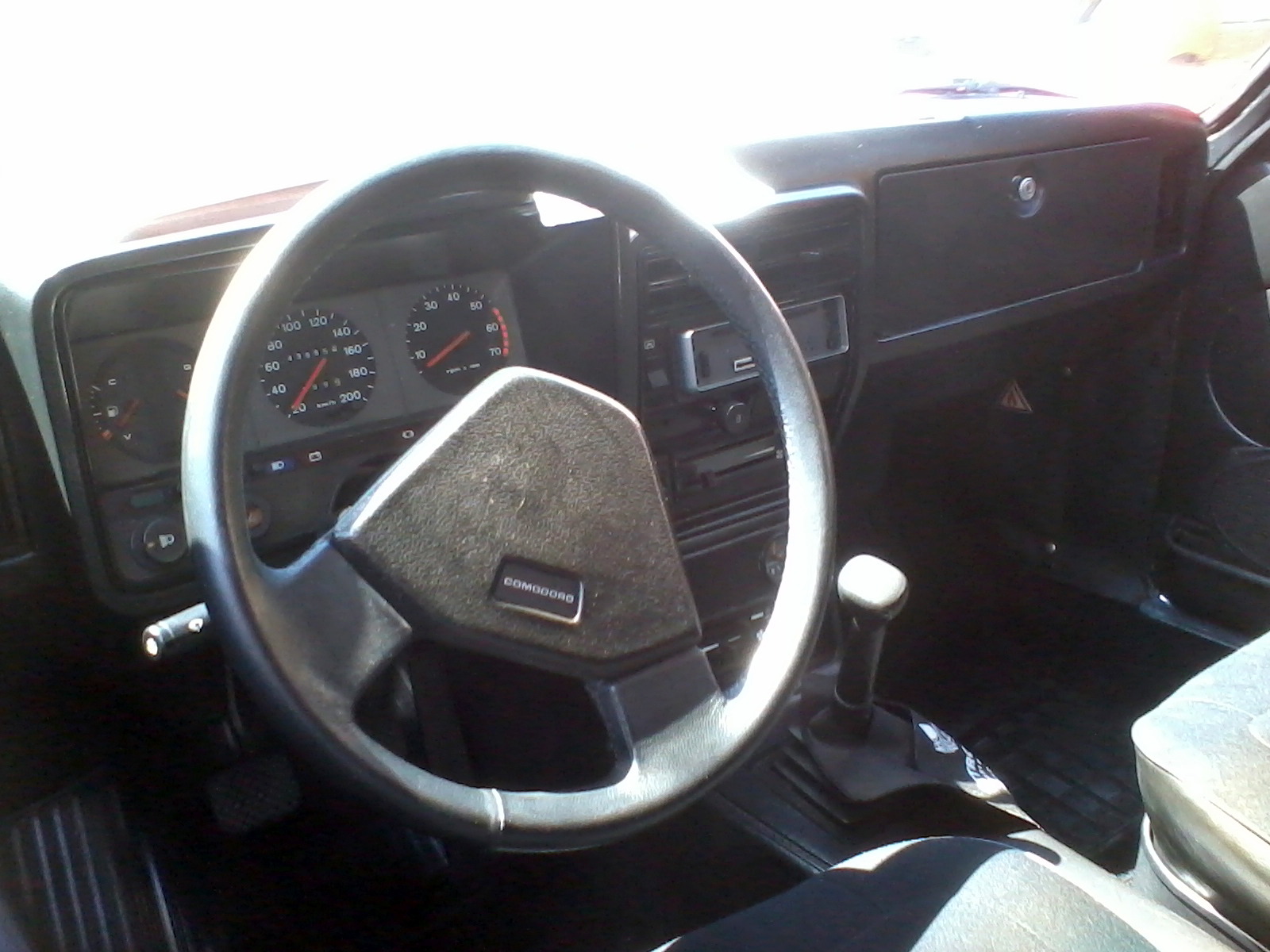 Dashboard of eighties Chevrolet Comodoro